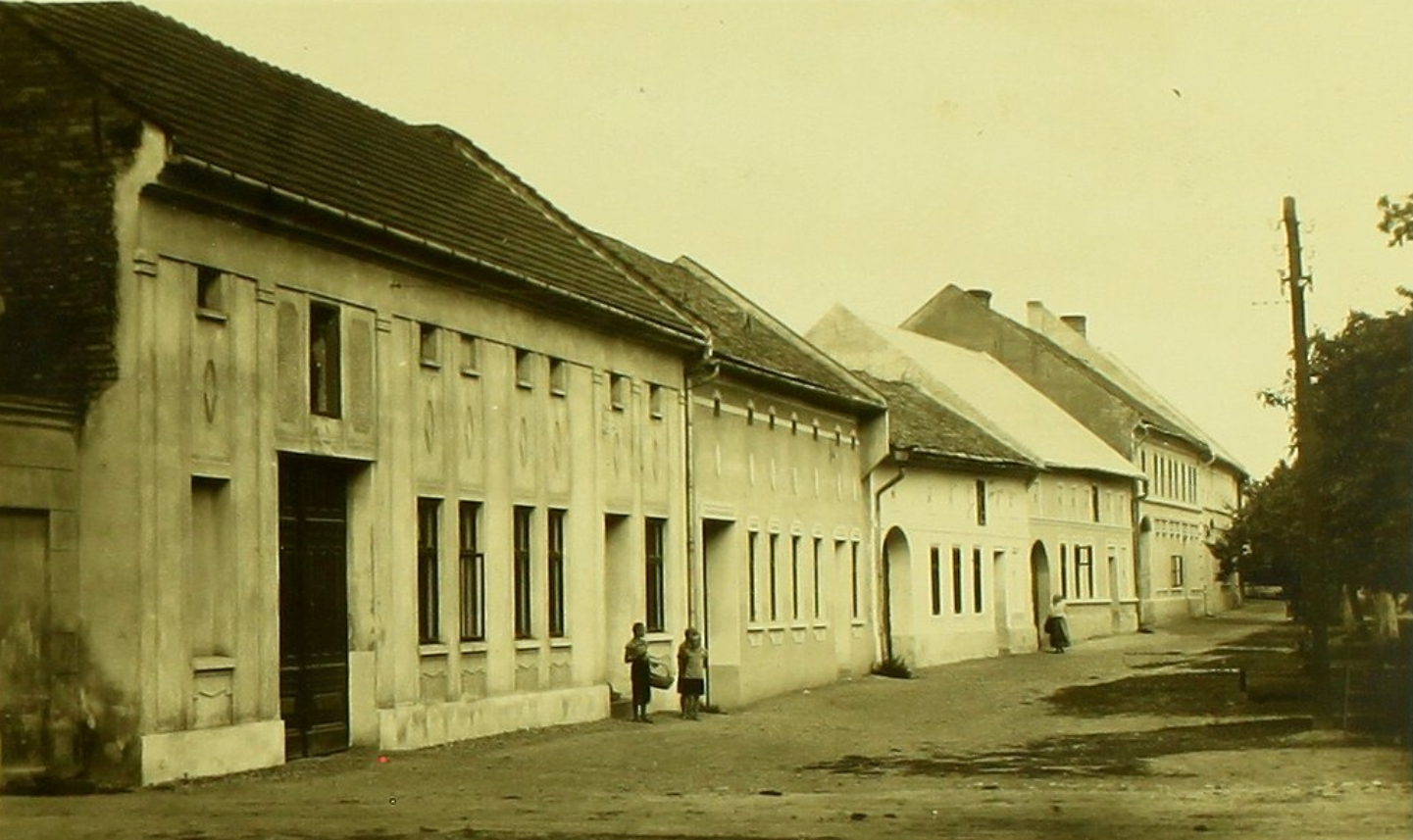 Říkovice, Village green, 1920s